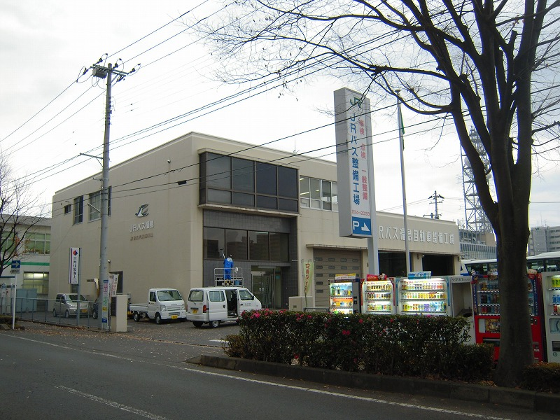 JR bus Tohoku Fukushima branch